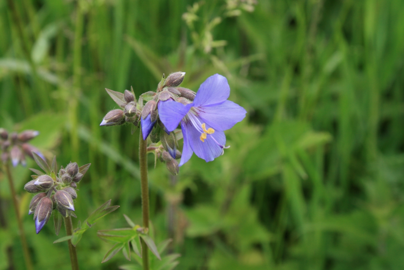 Polemonium caeruleum: Flower